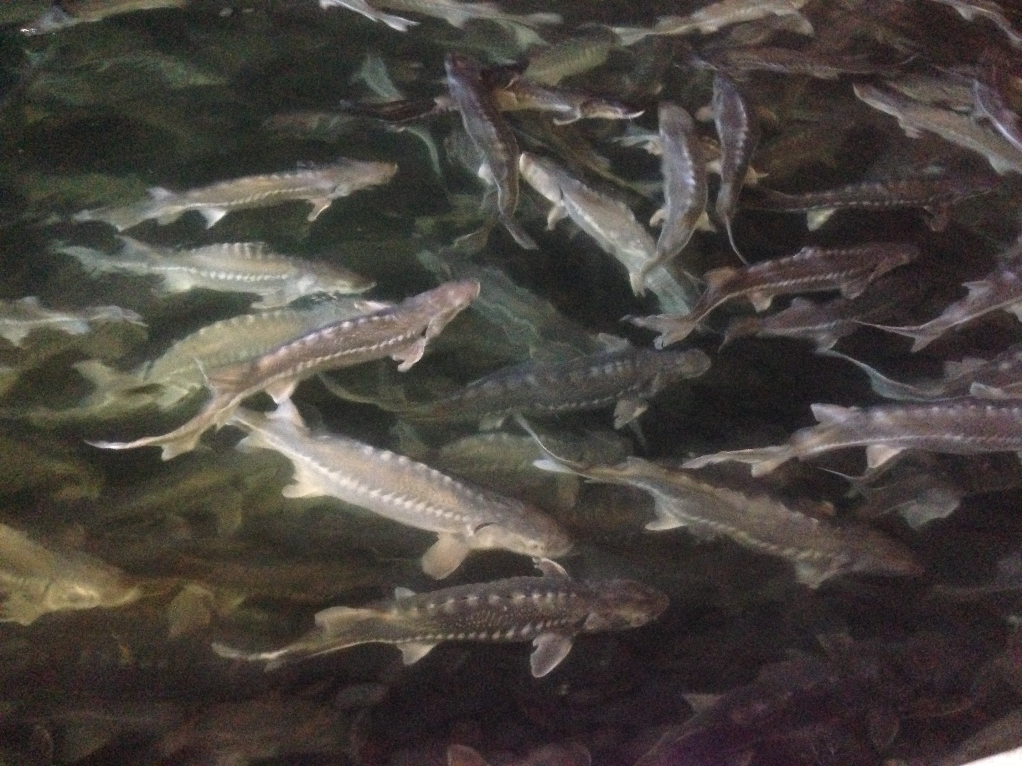 Sturgeon being grown for caviar production in a reuse aquaculture systems